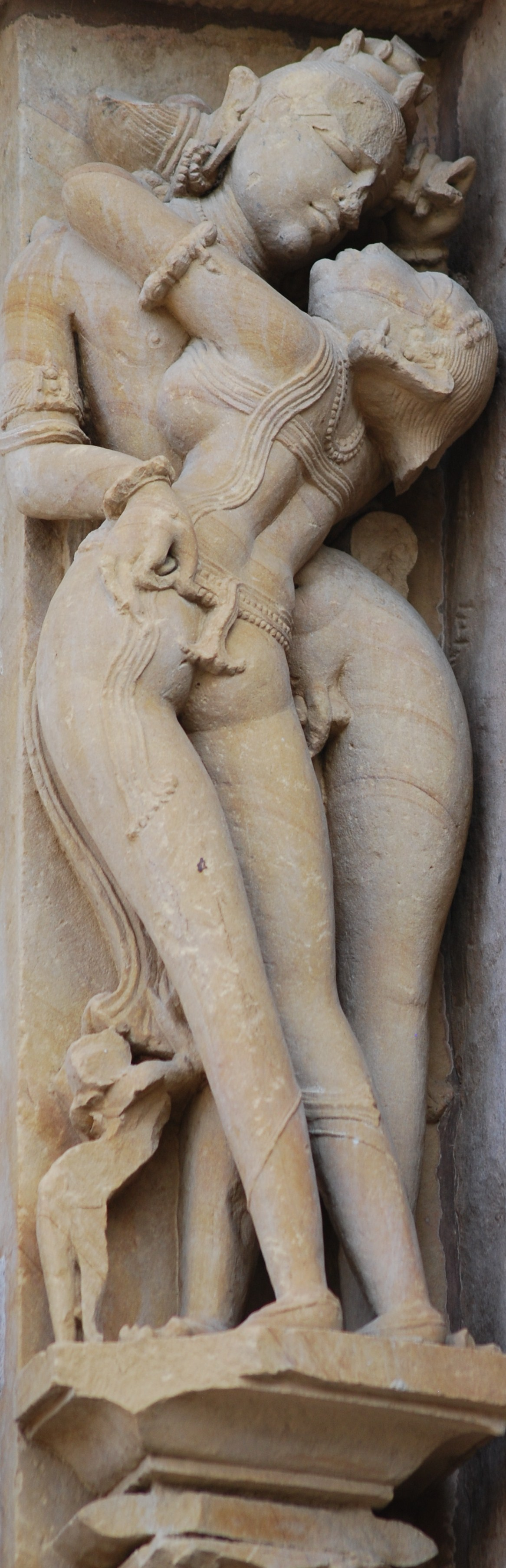 Sculpture of a couple kissing in temple relief at Khajuraho, Madhya Pradesh, India, a UNESCO World Heritage Site